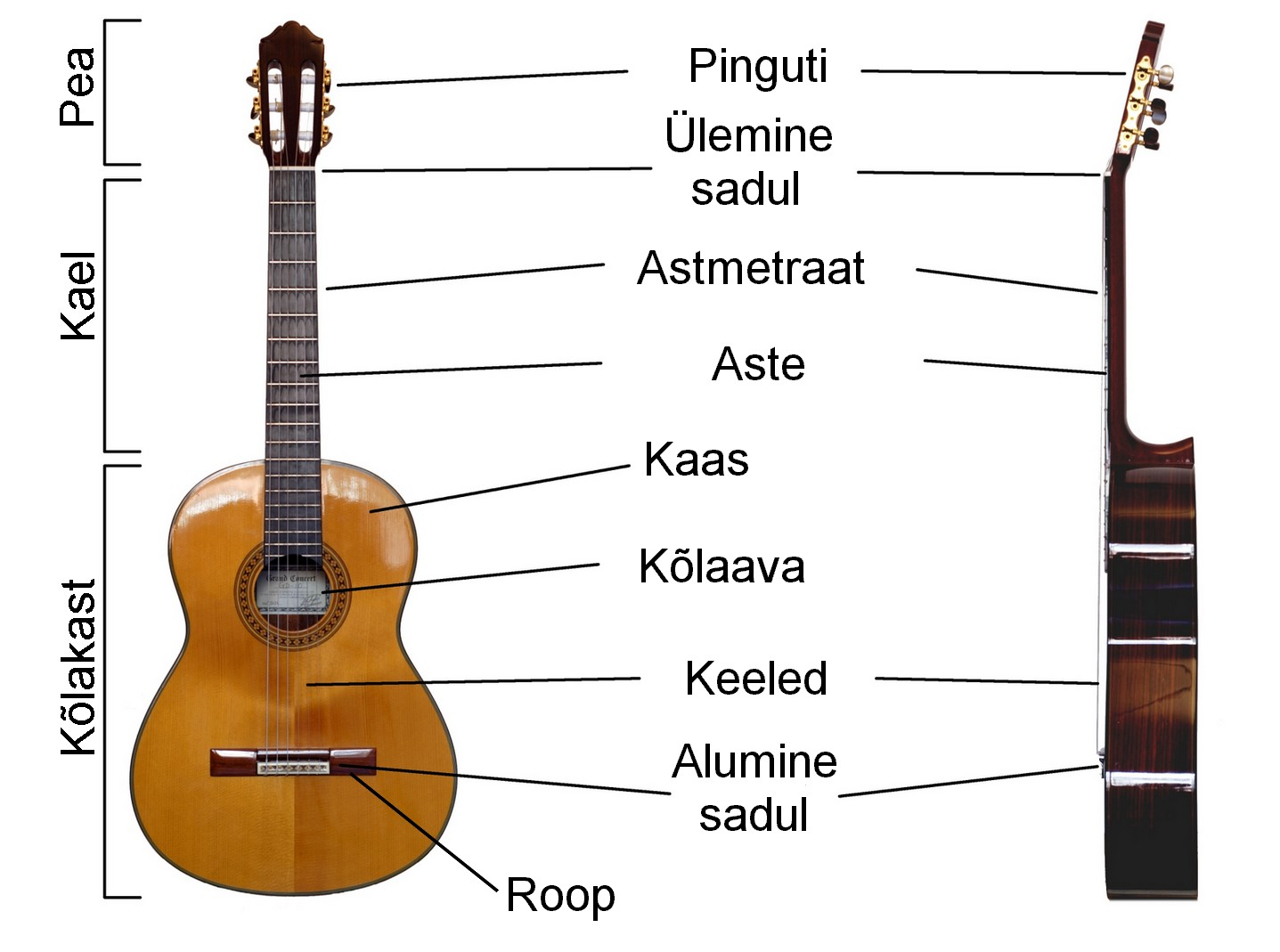 Estonian version of image: Image:Classical Guitar not labelled.jpg Eestikeelne versioon pildist: Image:Classical Guitar not labelled.jpg